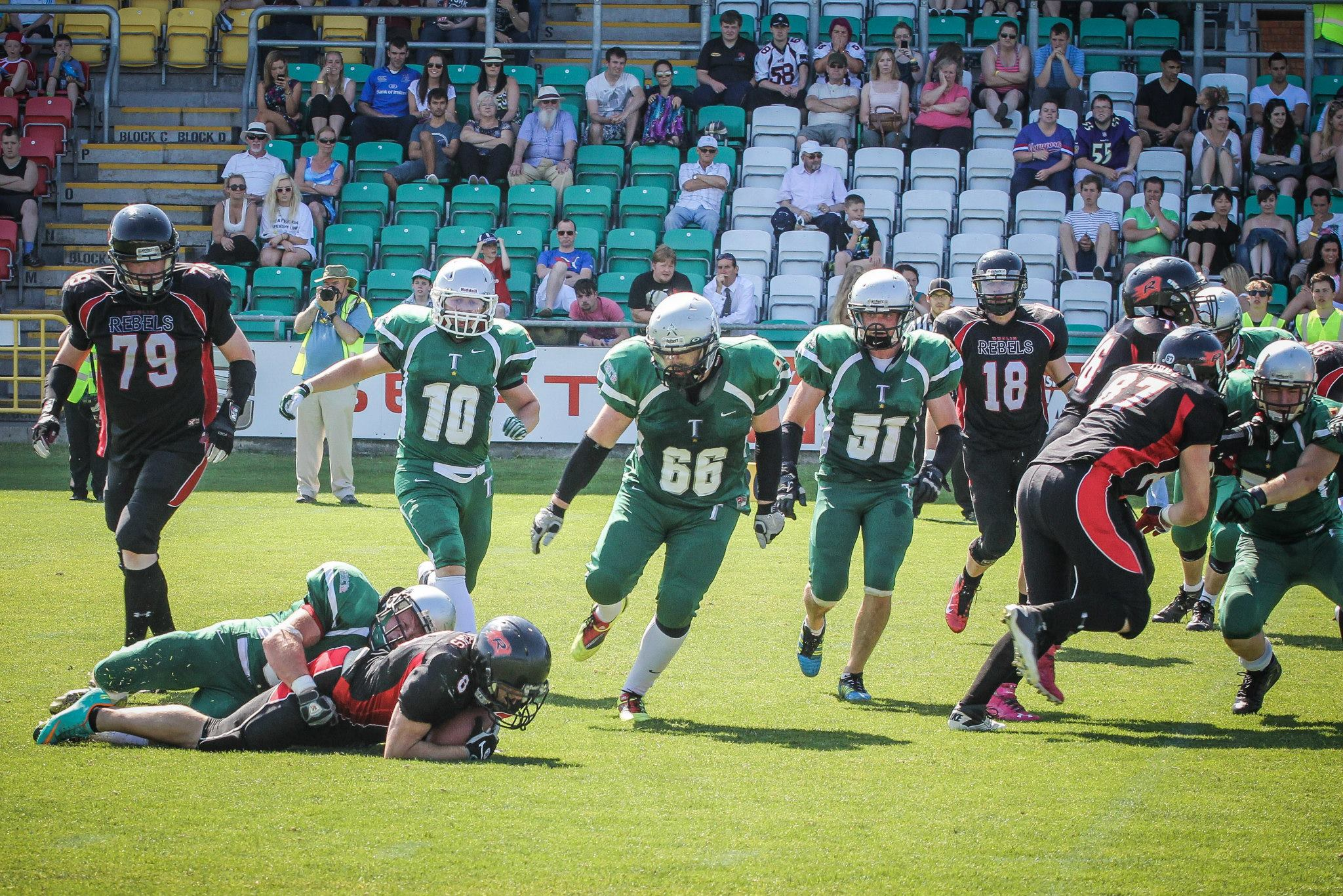 The Trojan Defence in action in Shamrock Bowl XXVII